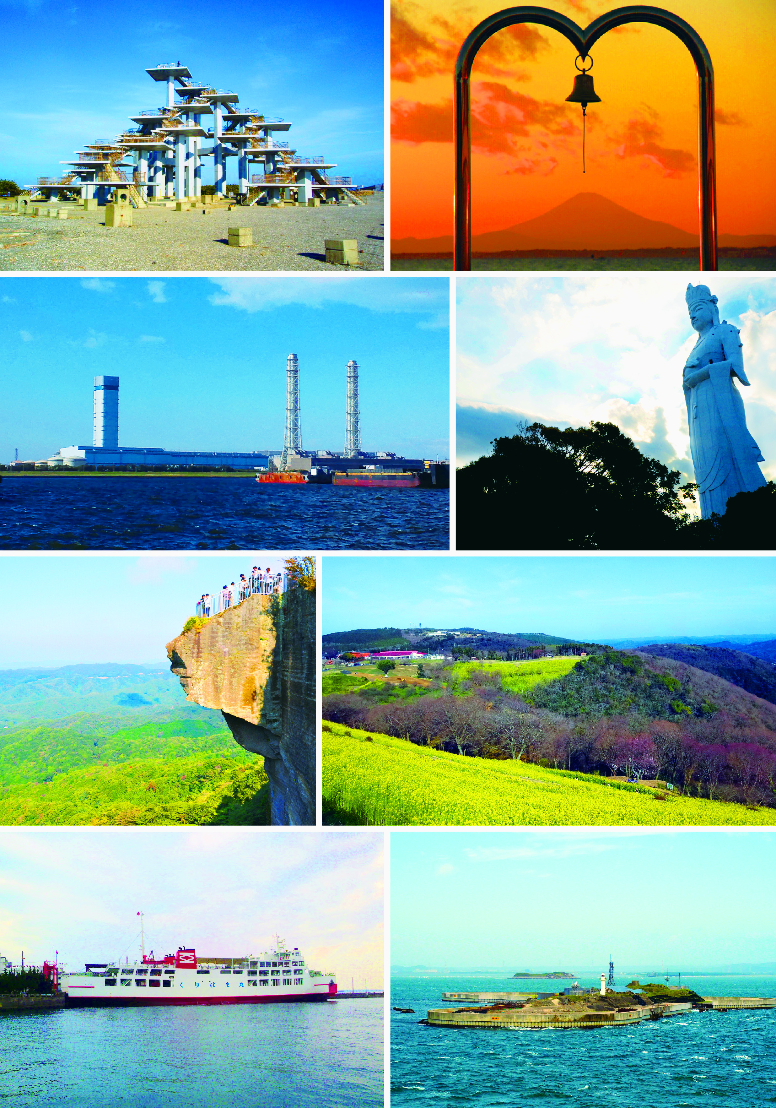 Futtsu montage.jpg